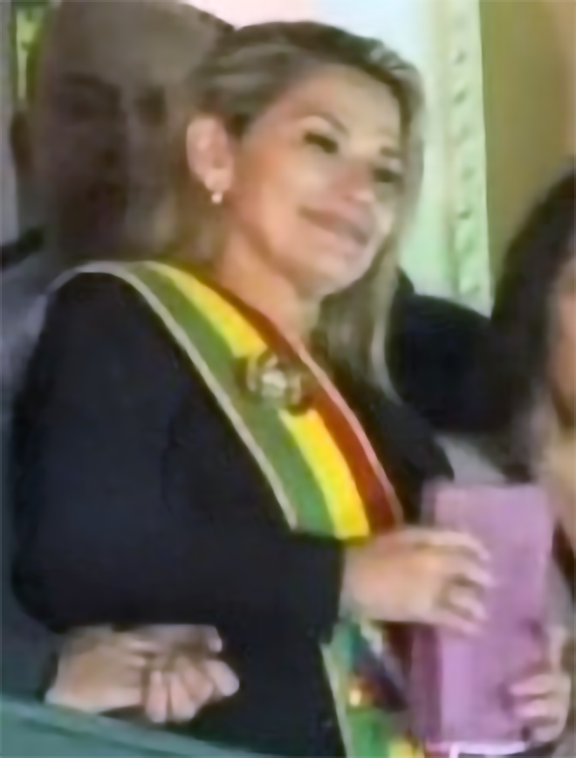 Áñez declaring as President of Bolivia